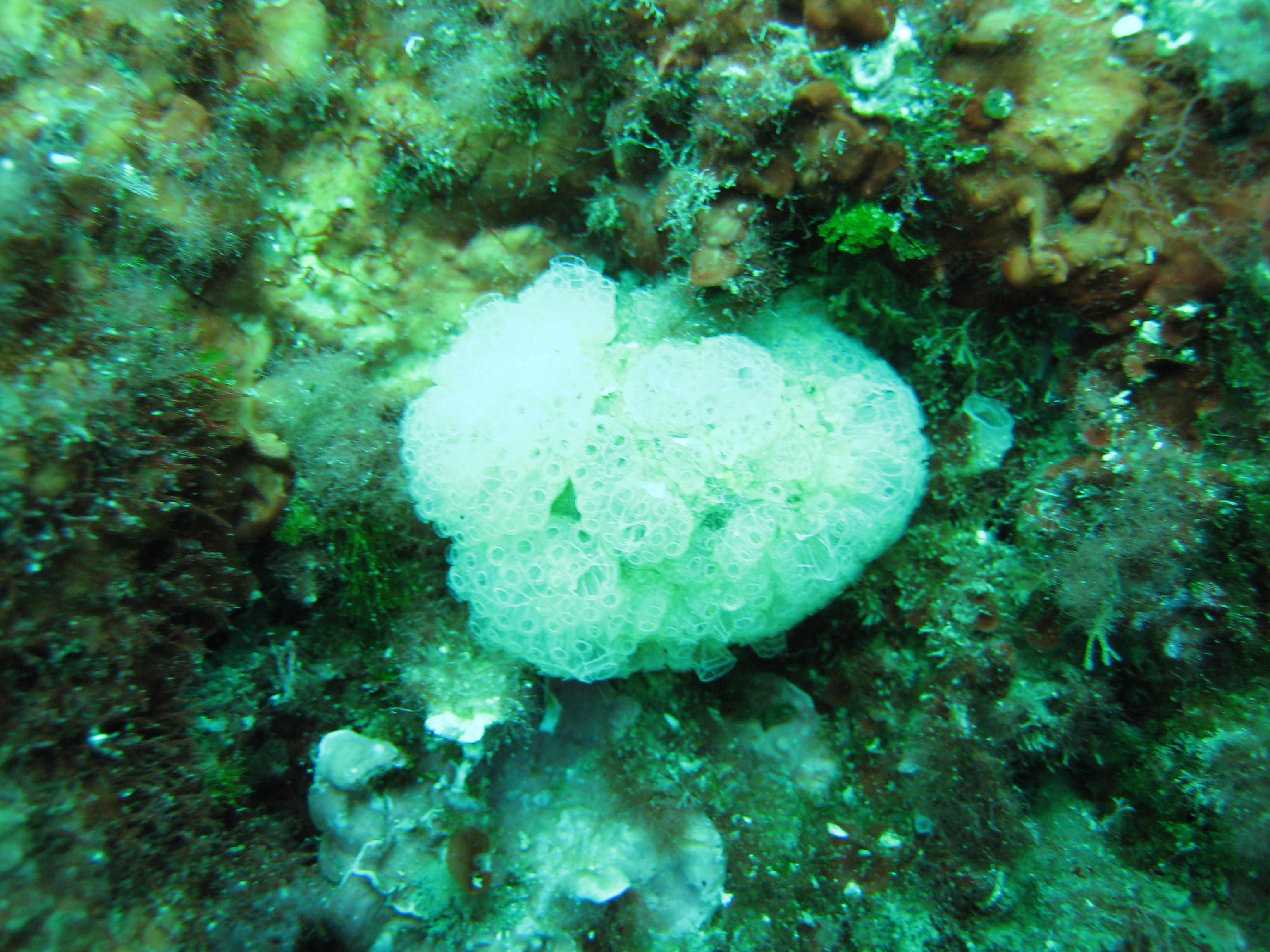 Polyclinum aurantium , picture taken in Niolon near Marseilles.